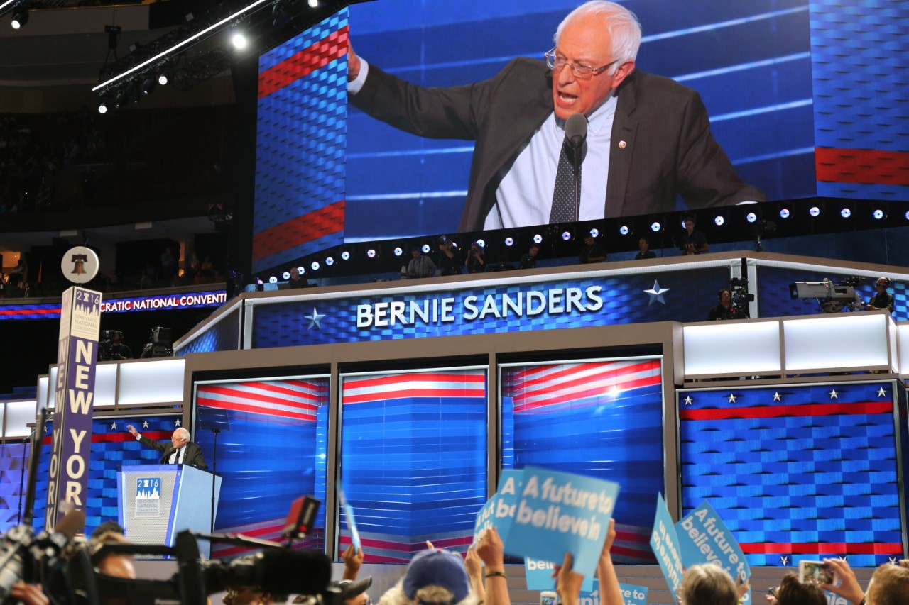 Former Democratic Presidential candidate Sen. Bernie Sanders takes the stage during the first day of the Democratic National Convention in Philadelphia, July 25, 2016.